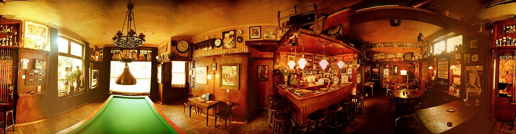 360° Panorama of a typical Dutch so-called "Bruin Café" ("Brown Pub"). The actual establishment depicted here is the "Oranjeboom Café" in the township of Velp, nowadays a seamless part of the agglomeration around Arnhem, capital city of Gelderland, the largest province of the Netherlands.